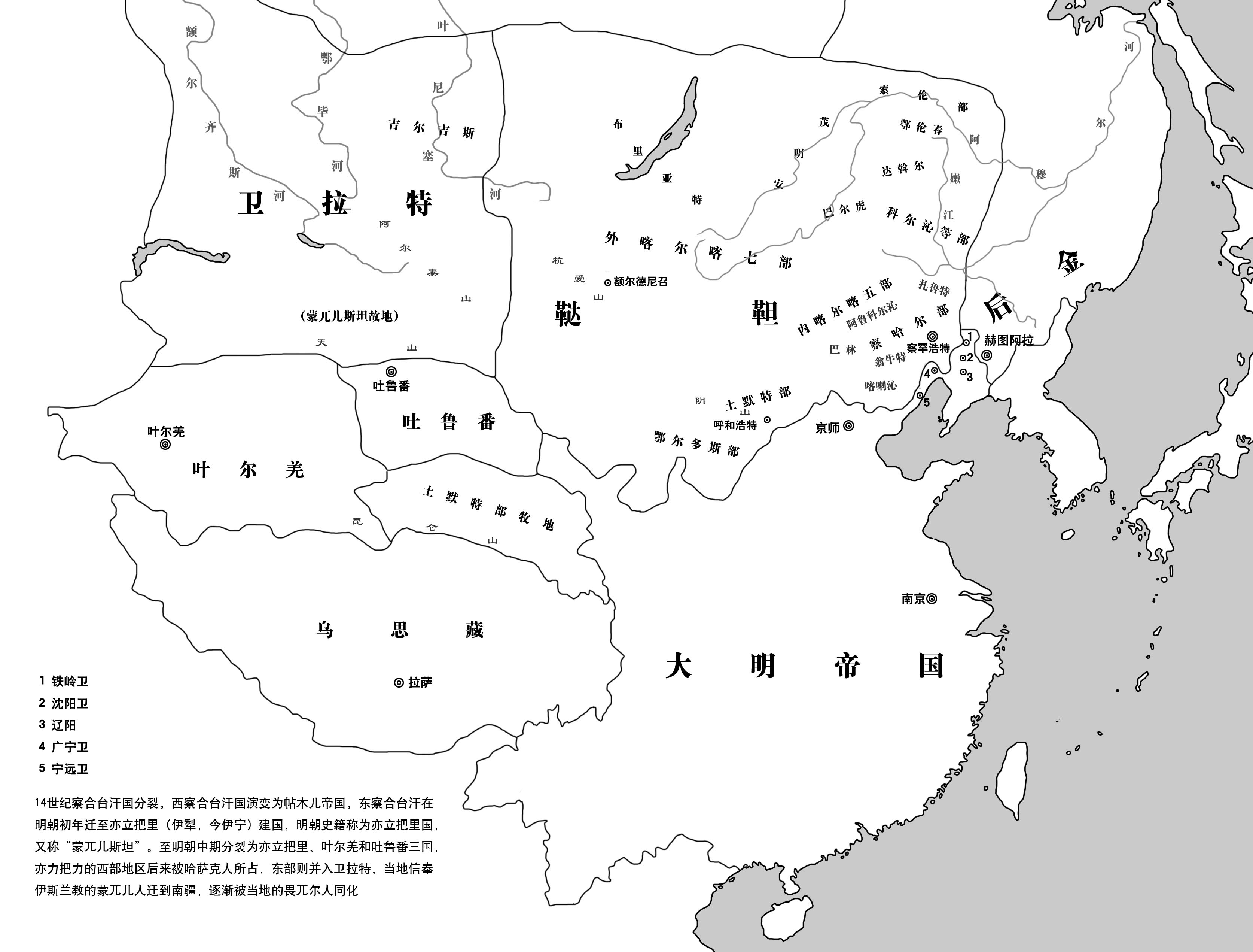 Emipres of Ming, Jurchen (Later Jin), Mongol, Oirat, Upper Mongols (Kokonur, Qinghai), Chagatai Khanate (Yarkent Khanate), Turfan circa 1616